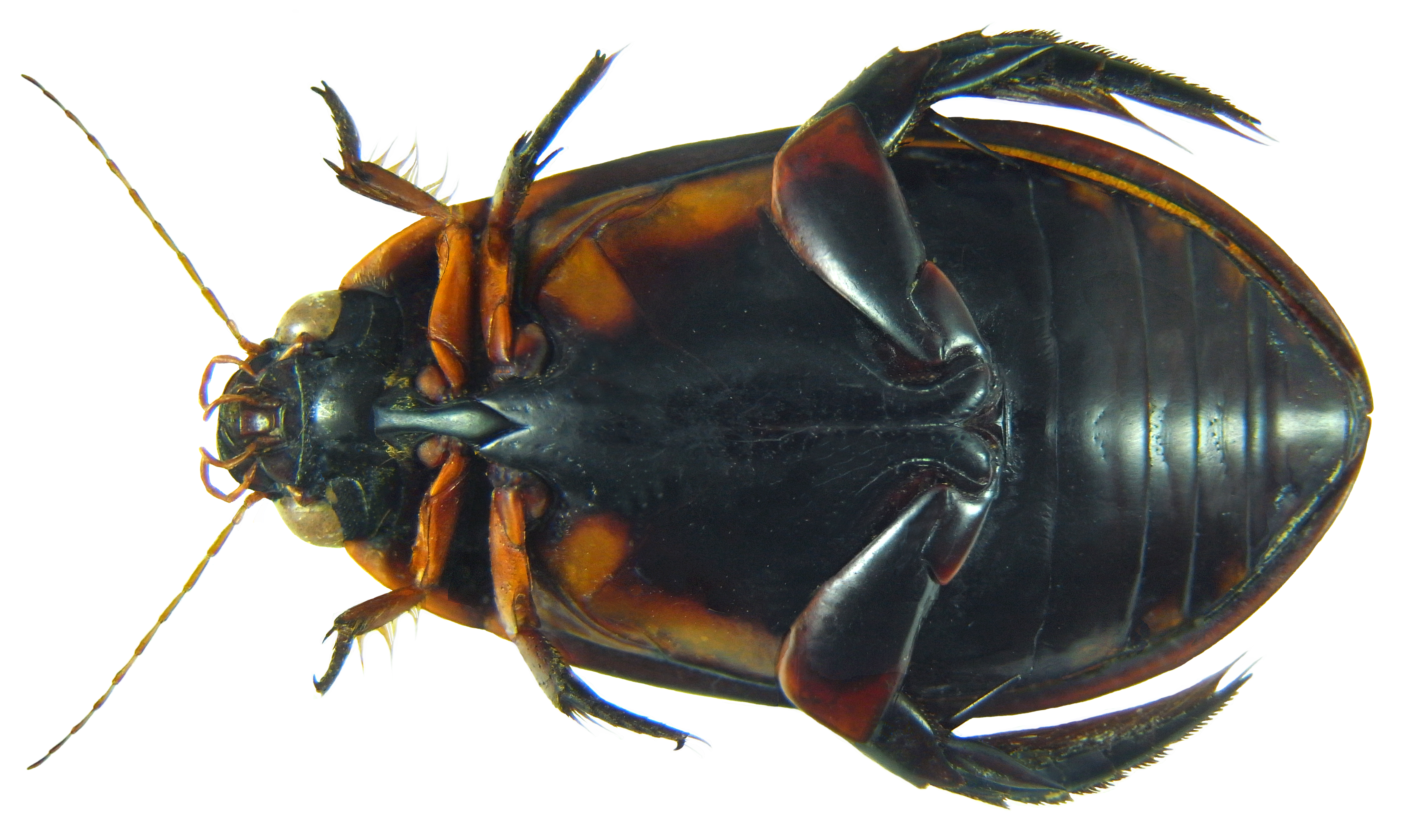 Ventral view of Cybister rugosus Familie: Dytiscidae Groesse: 28 mm Fundort: Thailand, Chumphon leg. Steinke, VIII.1987; det. Hendrich, 2011 Photo: U.Schmidt, 2012